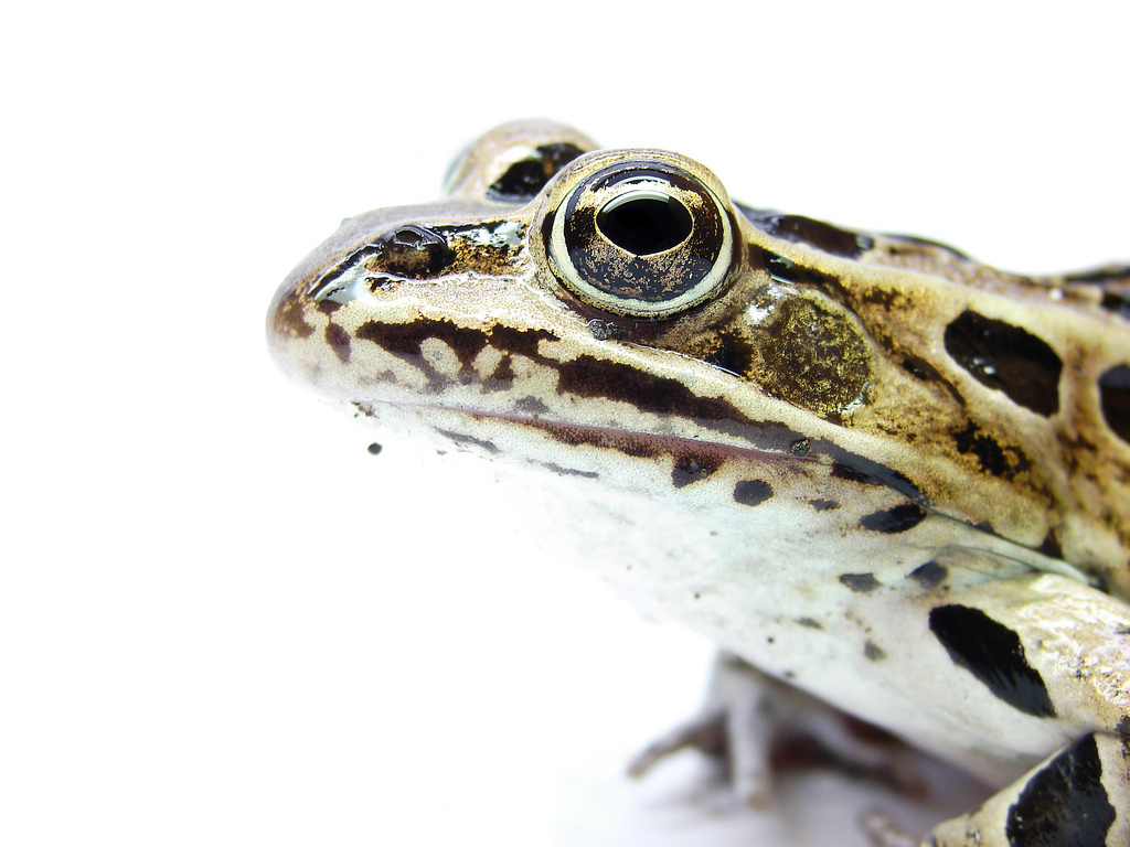 No, it's a northern leopard frog, Rana pipiens, in Burleigh County, North Dakota. I often rescue frogs and salamanders from a local bait shop when they accidentally come in with their minnows. The northern leopard frog produces specific ribonucleases in its oocytes (immature egg cell). Those enzymes are potential drugs for cancer. One such molecule called ranpirnase (onconase) is in clinical trials as a treatment for mesothelioma and lung tumors. Another called amphinase was recently described as a potential treatment for brain tumors.